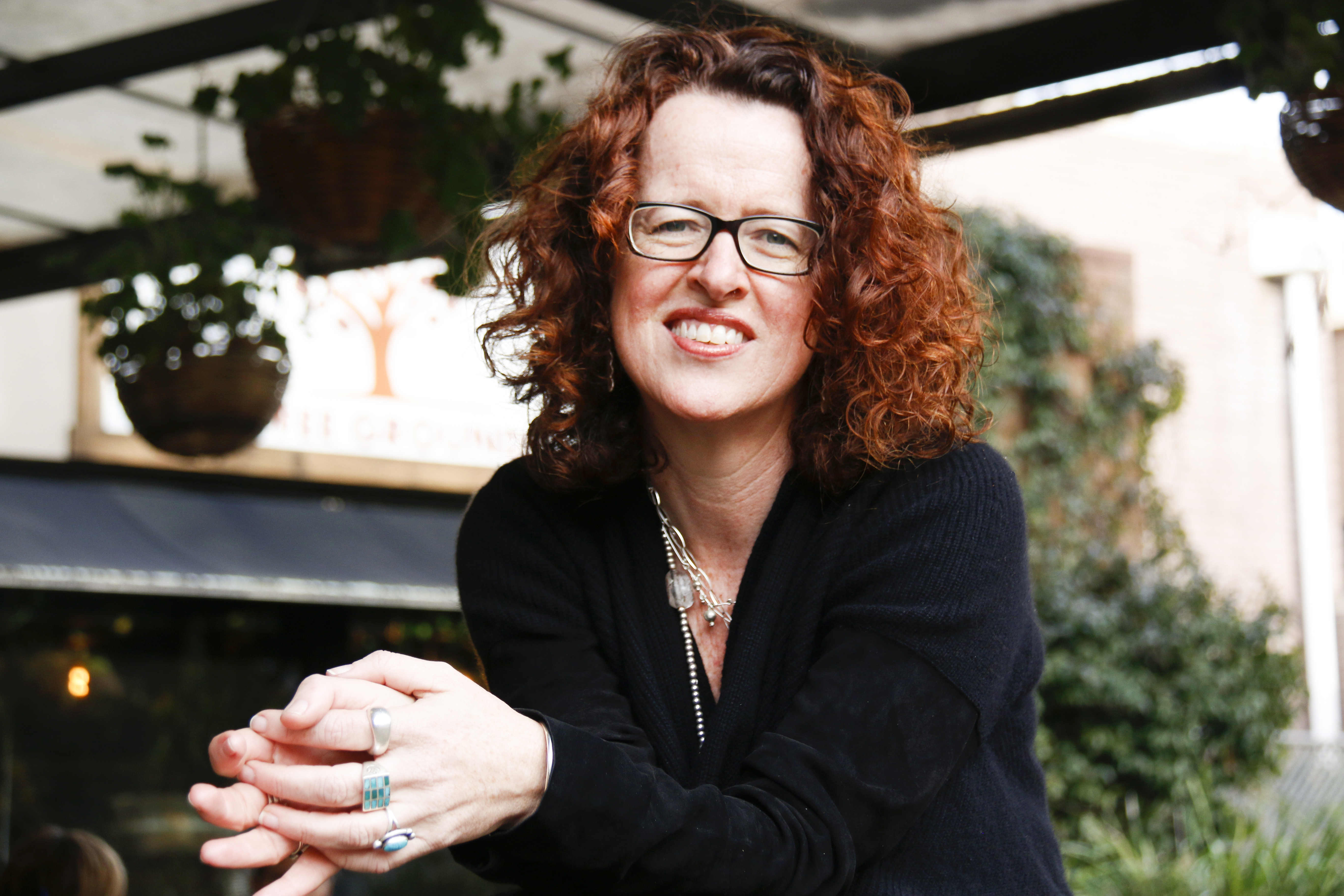 Genevieve Bell by Tegan Osborne (ABC)